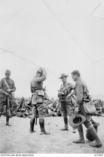 Mena, Egypt. c. 1915. Four AIF officers taking a rest during training in the desert. From the right they are Captain Henderson, Major McNichol, Lieutenant Colonel Elliott and Captain McKenna.